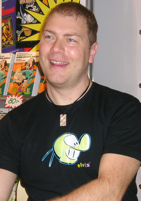 Swedish cartoonist, Tony Cronstam, during the 2006 Gothenburg Bookfair